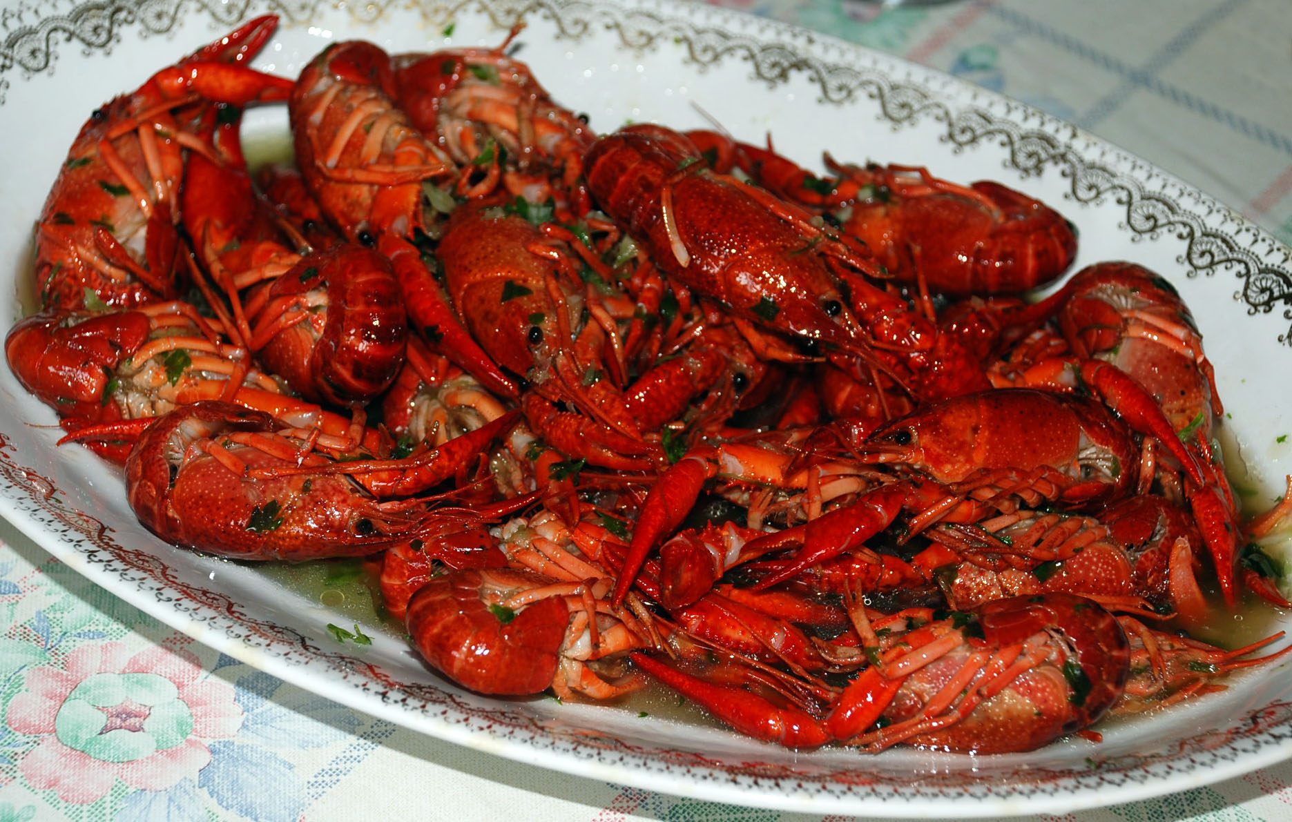 Palentine cuisine river crabs typical from Herrera de Pisuerga (Palencia, Castile and León).